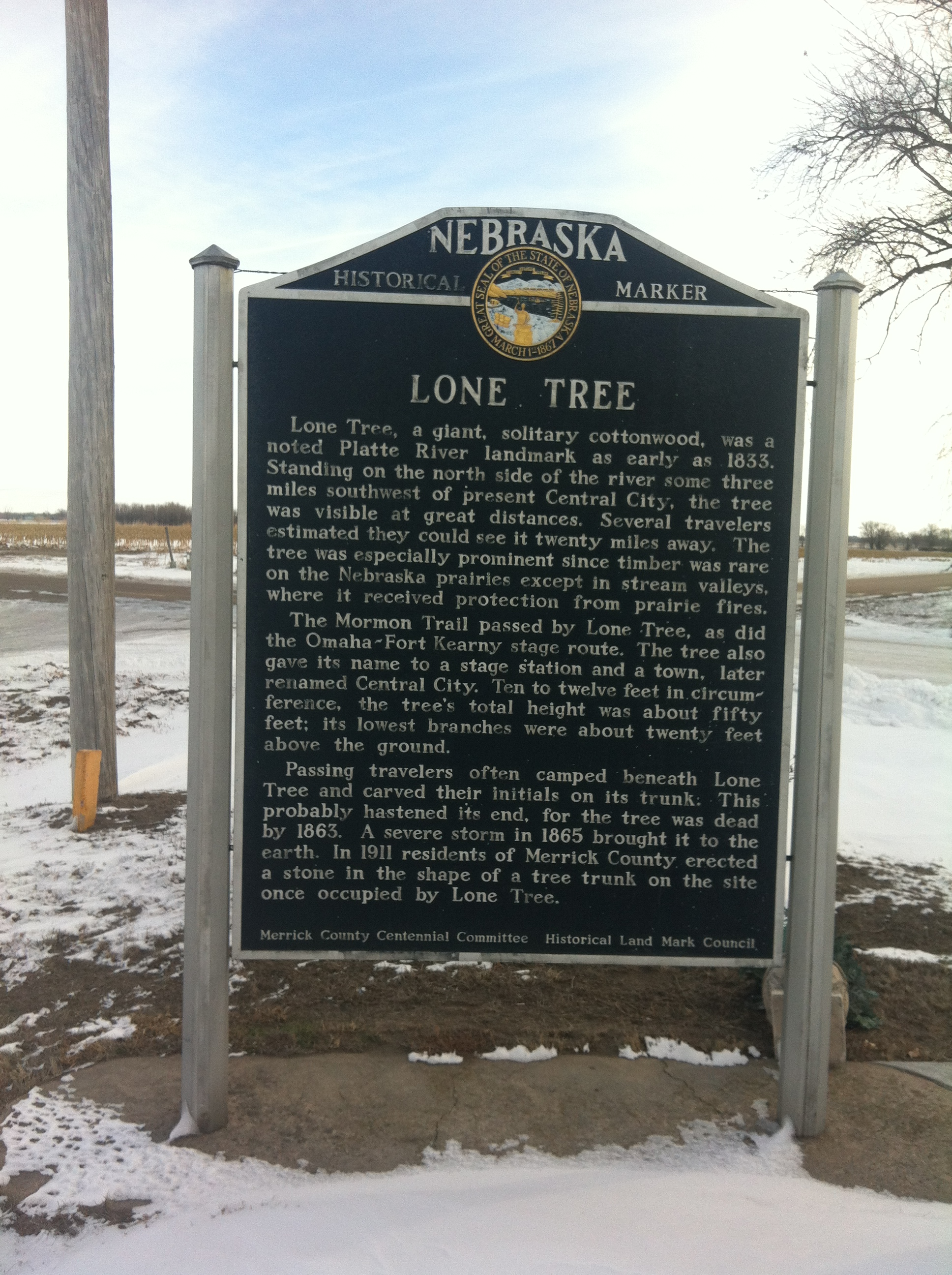 This is the Nebraska State Historical Society marker for the location of lone tree and its description, 12/26/2012.